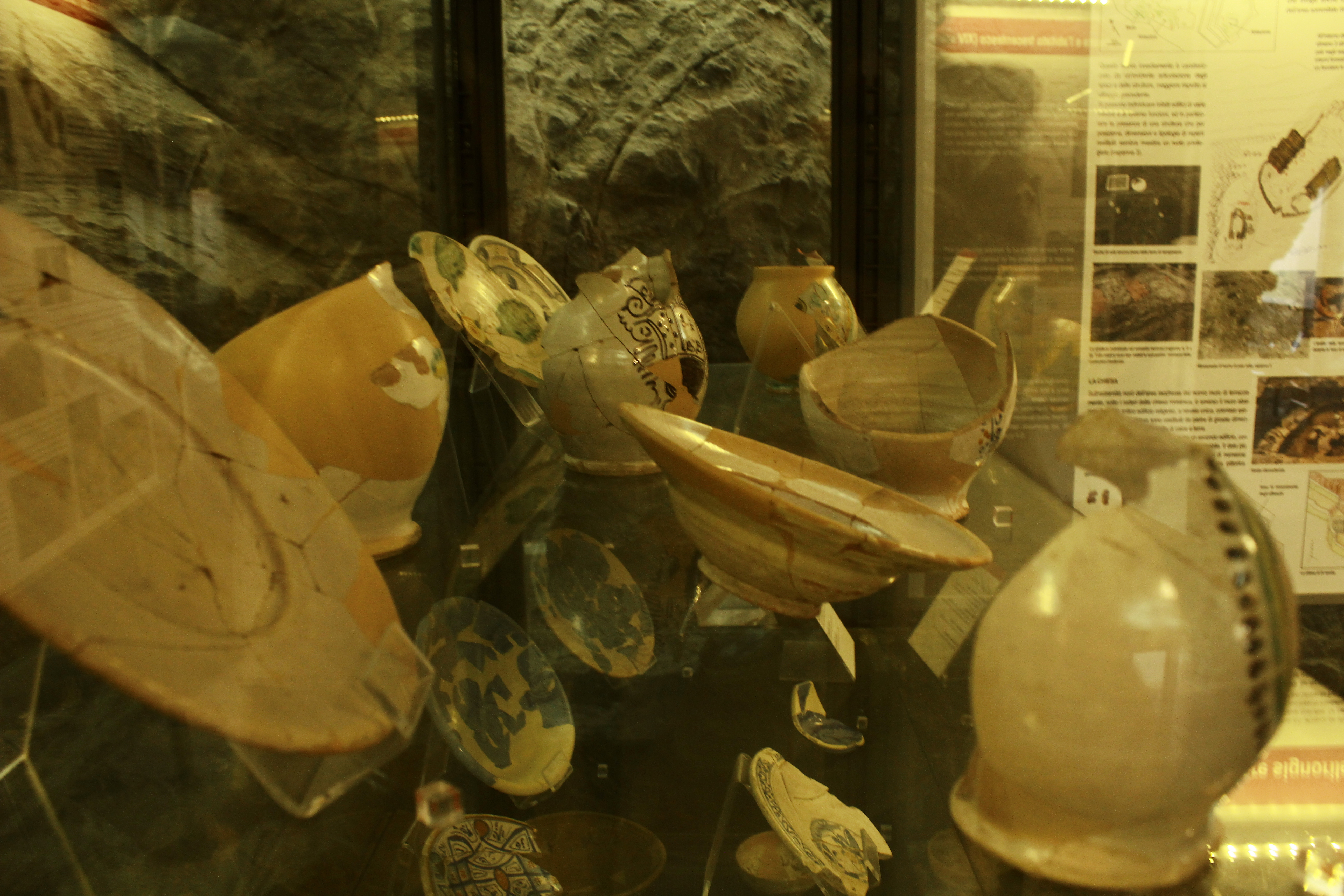 Archeological Museum R. Francovich, Scarlino